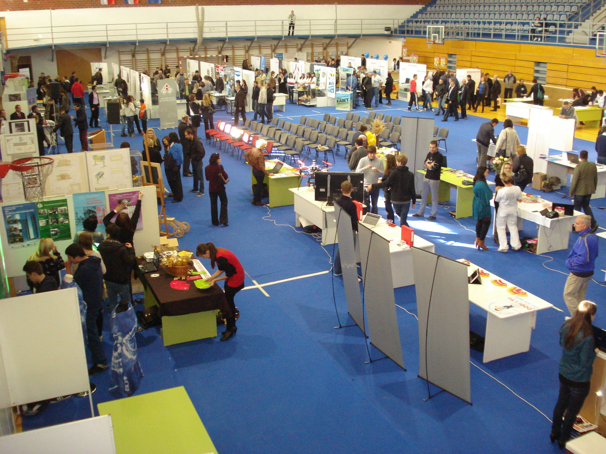 Job Fair and Young Entrepreneurs Trade Fair 2013. in Čakovec, Medjimurje County, Croatia - exhibition hallHrvatski: Sajam poslova i Sajam mladih poduzetnika 2013. u Čakovcu, Međimurska županija, Hrvatska - izložbena dvorana